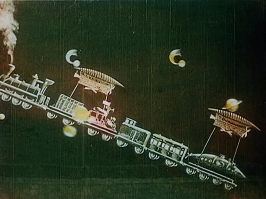 Scene from a hand-colored print of Georges Méliès's 1904 film The Impossible Voyage.